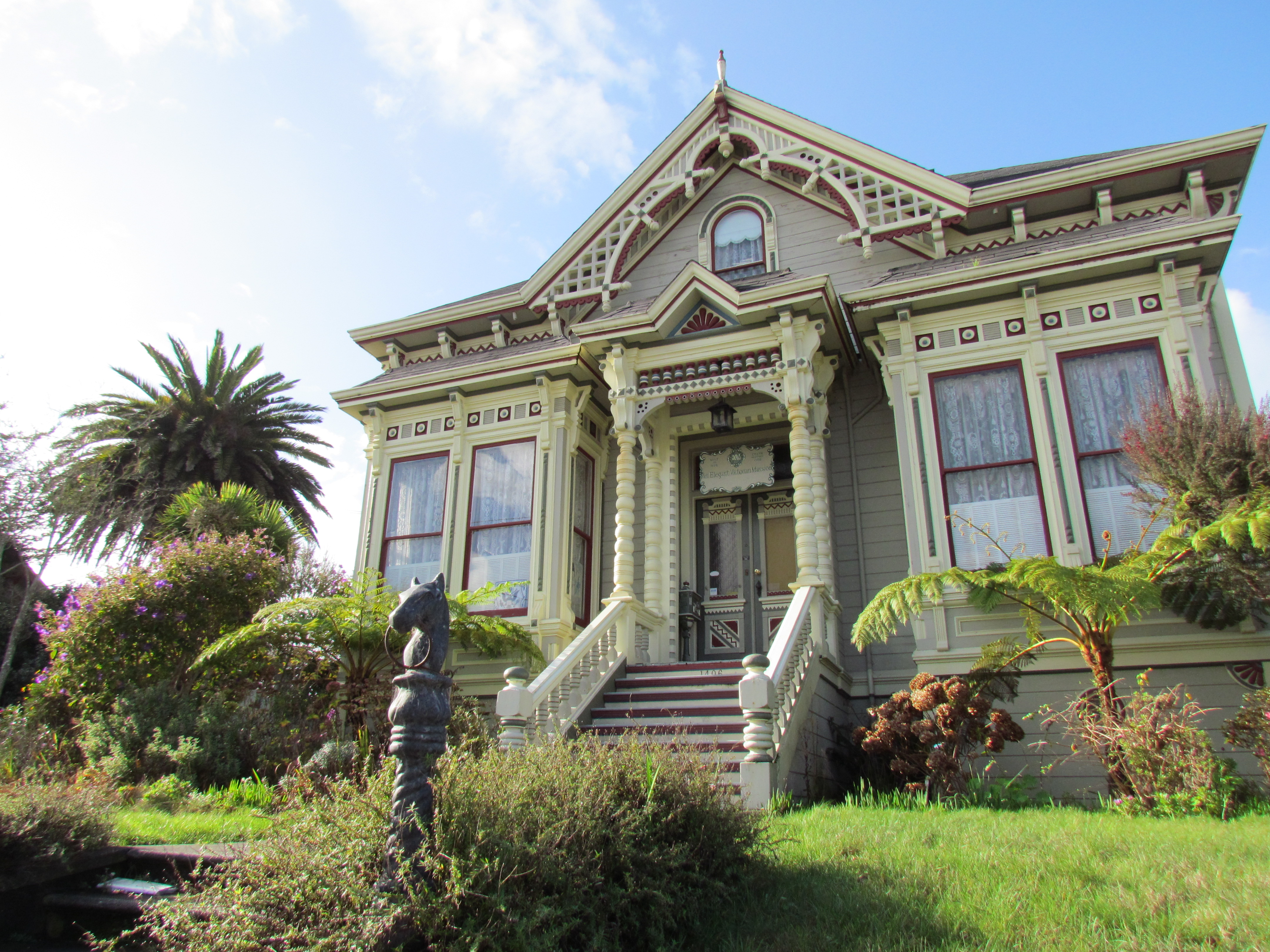 The William S. Clarke house (alt. view). The Clarke House is located at 1406 C Street, Eureka, northern California.